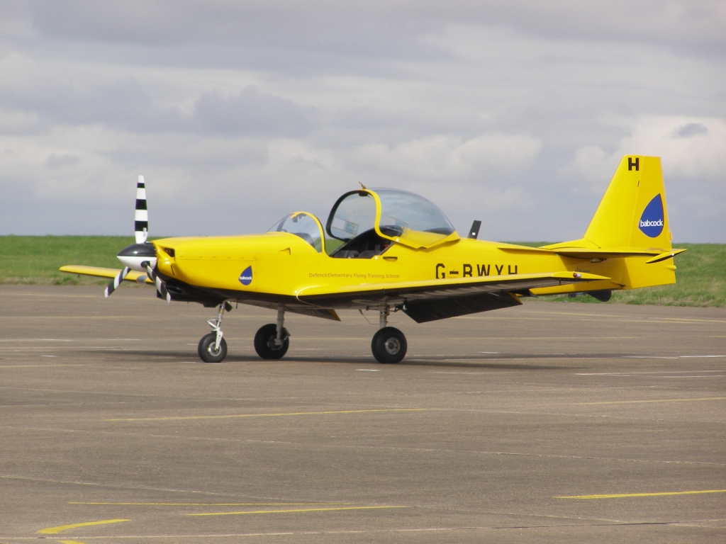 Slingsby T-67M Firefly (Registration G-BWYH) of the Defence Elementary Flying Training School. Photograph by Self